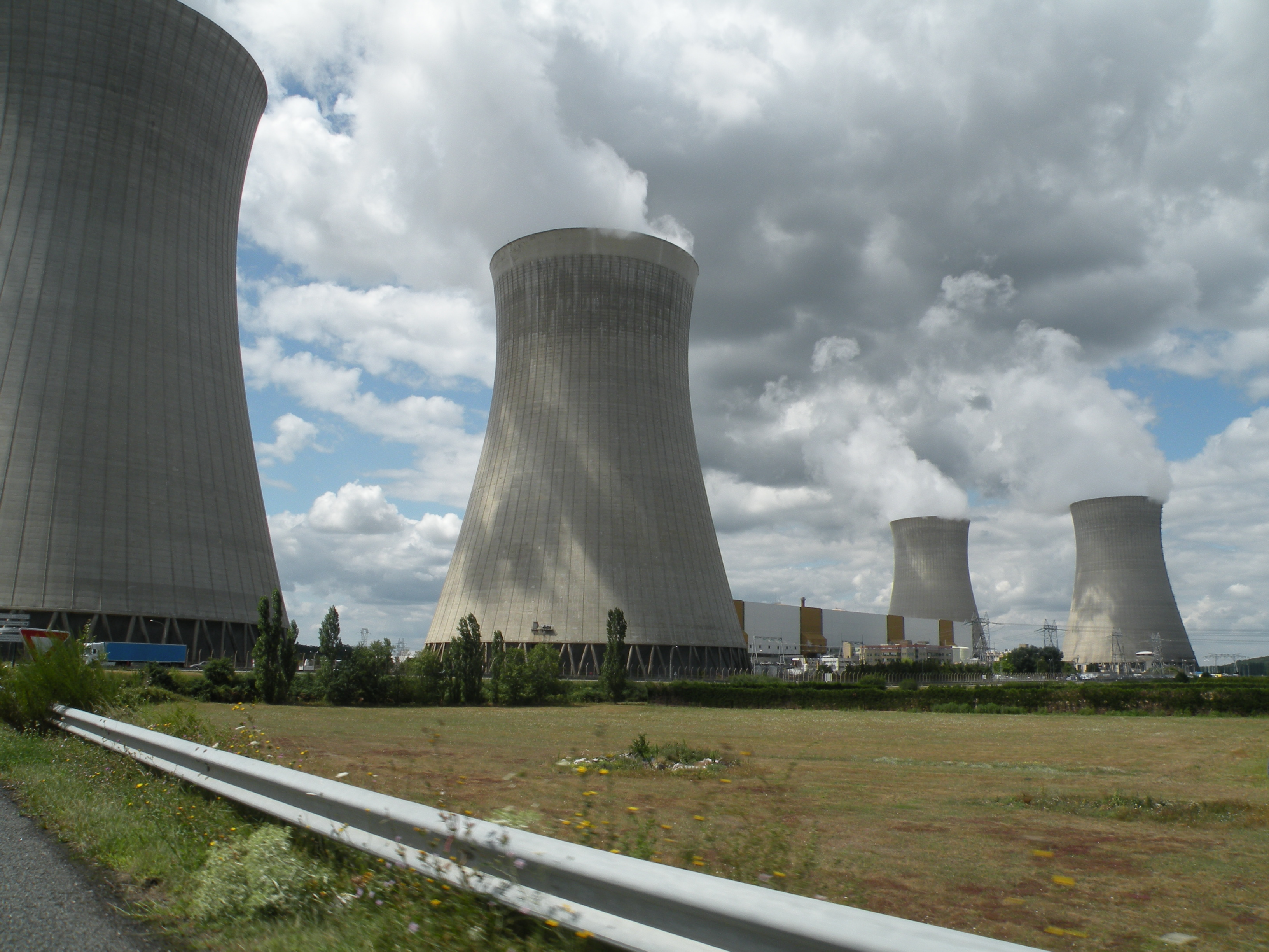 Nuclear power plant of Dampierre-en-Burly.